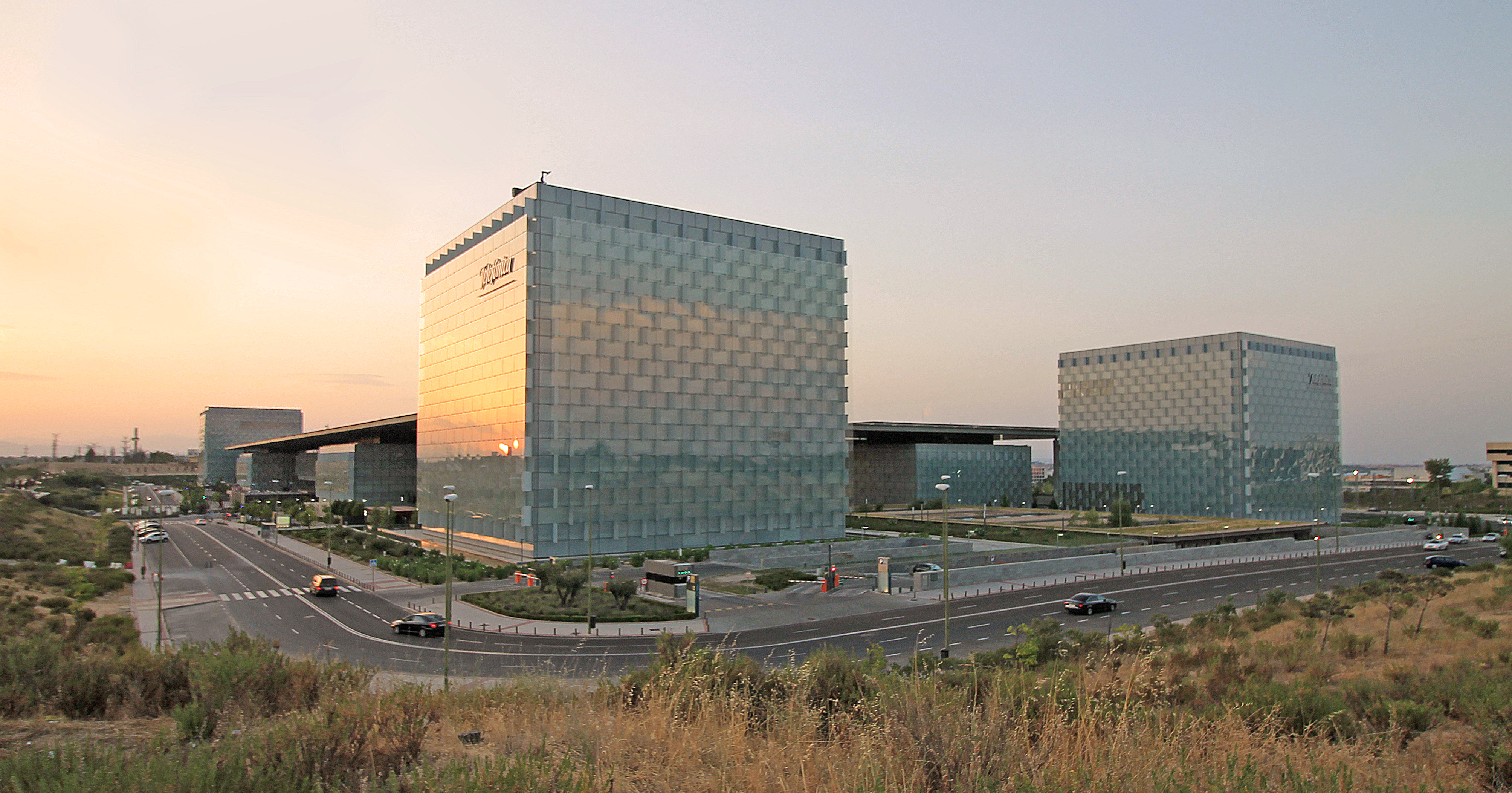 View of Distrito Telefónica in Madrid (Spain) from the south angle.